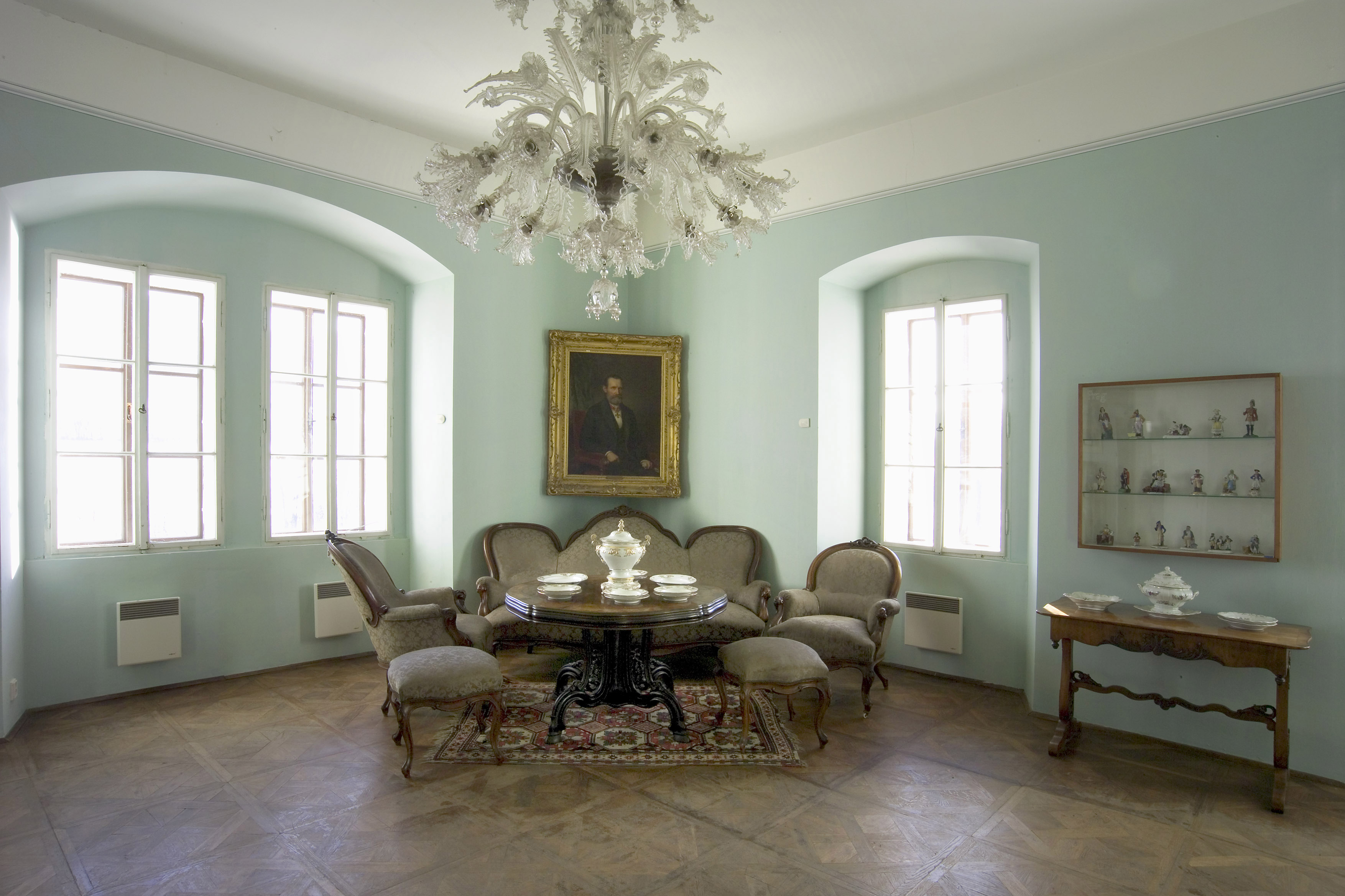 Salon of the Klášterec nad Ohří Chateau In Klášterec nad Ohří, Chomutov District, Czech Republic.